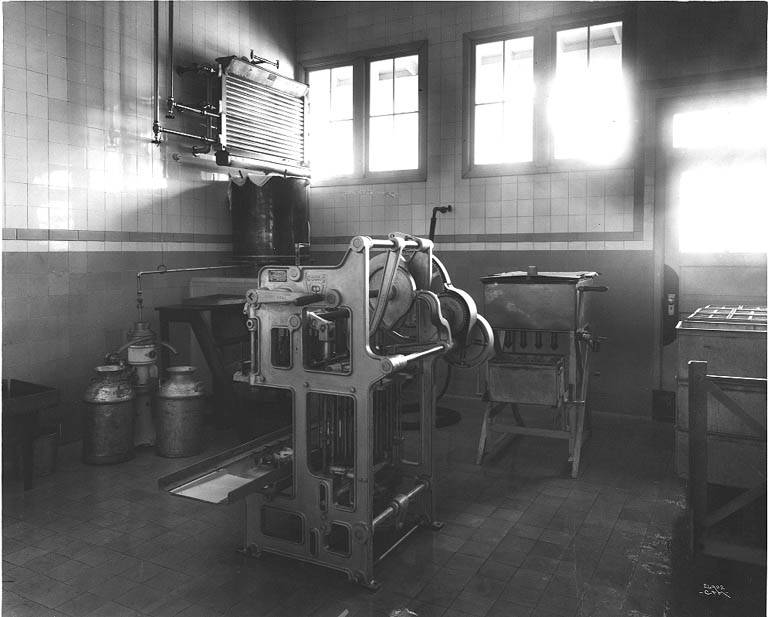 Located near Woodinville. Subjects (LCTGM): Dairying--Washington (State)--Woodinville; Farms--Washington (State)--Woodinville Subjects (LCSH): Hollywood Farm (Woodinville, Wash.)